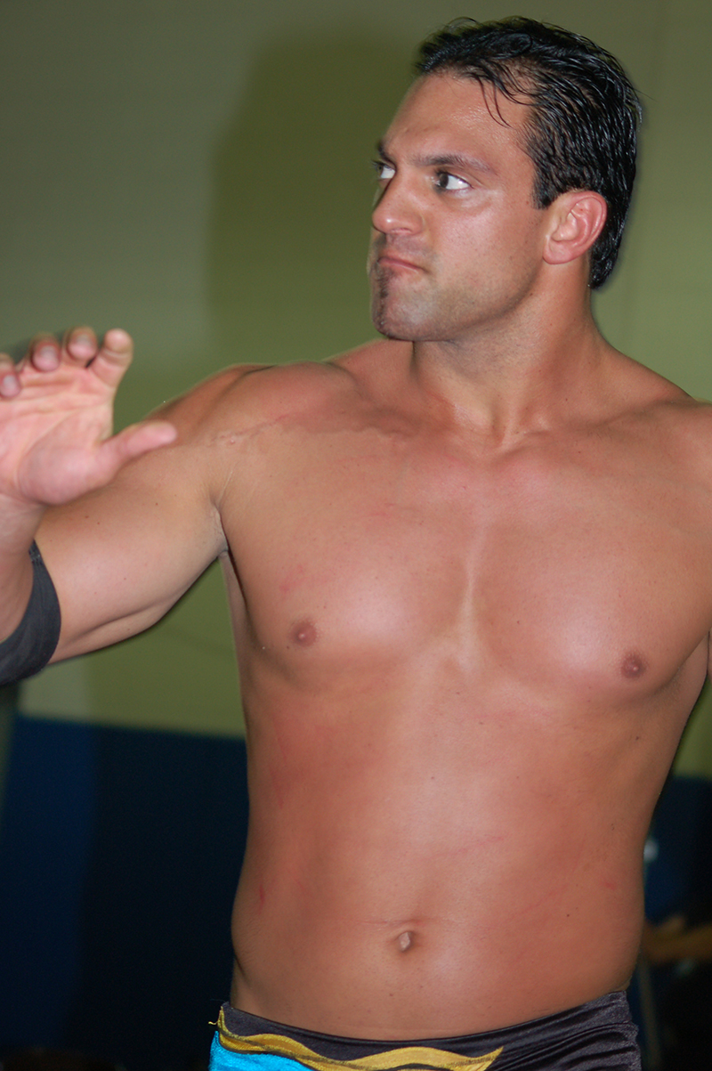 Idol Stevens at Second City Wrestling Halloween Bash on Oct 25th, 2008, Midlothian, IL.